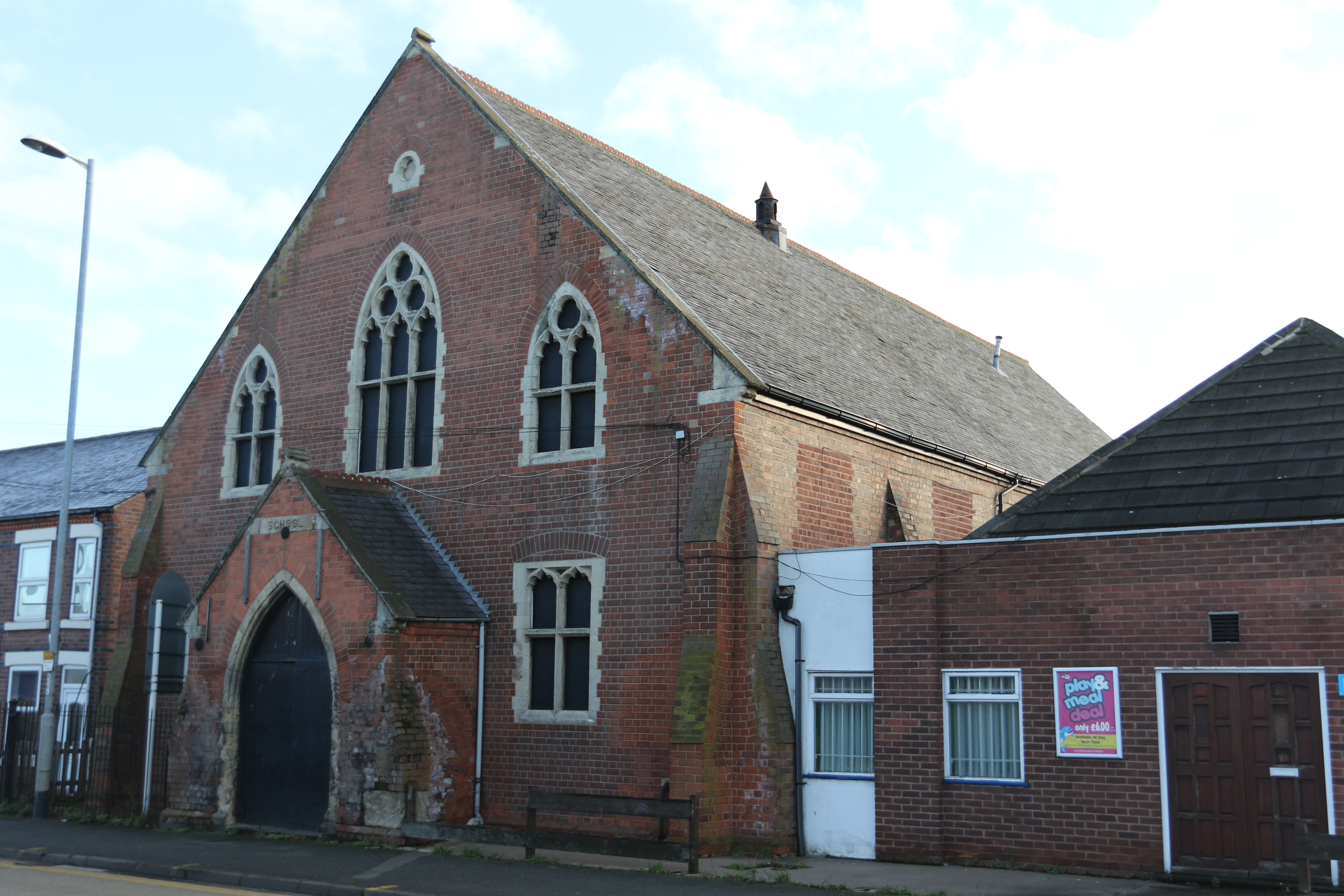 Built by Robert Charles Clarke, 1900